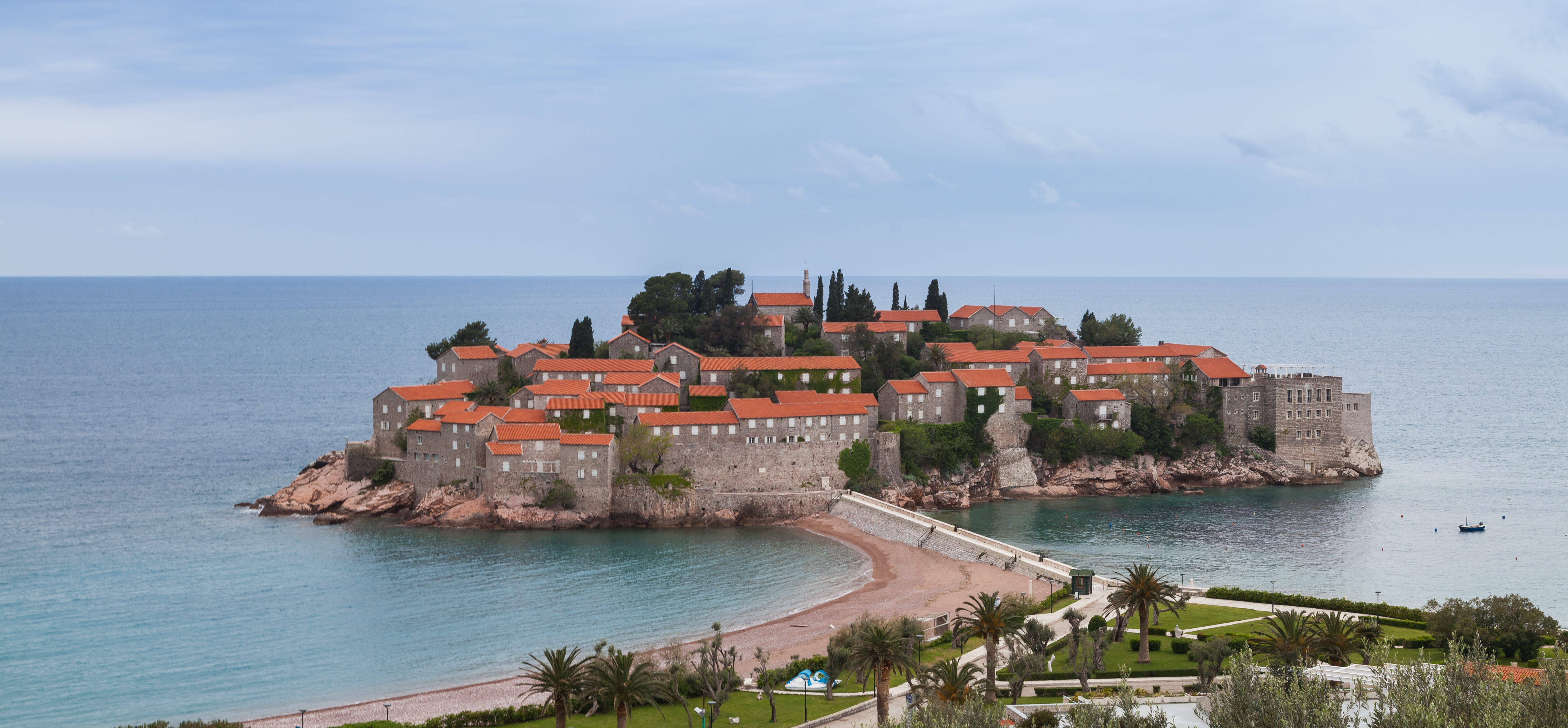 Sveti Stefan, Montenegro